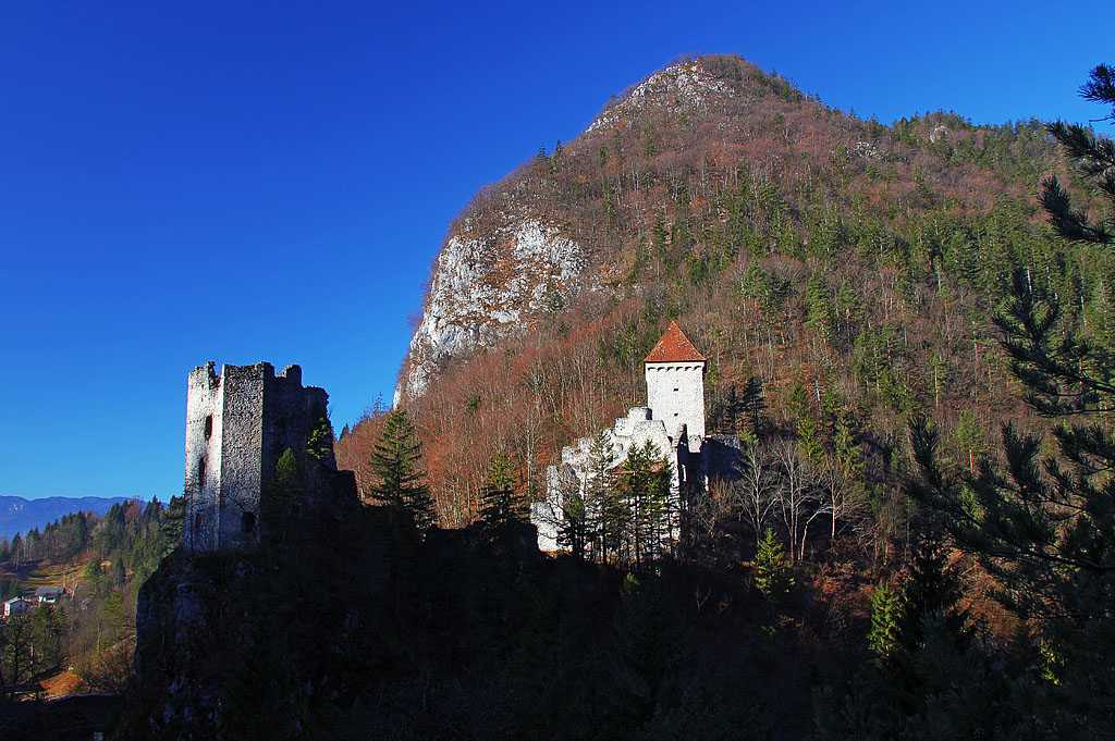 The view on Kamen castle from the other side of Draga valley.